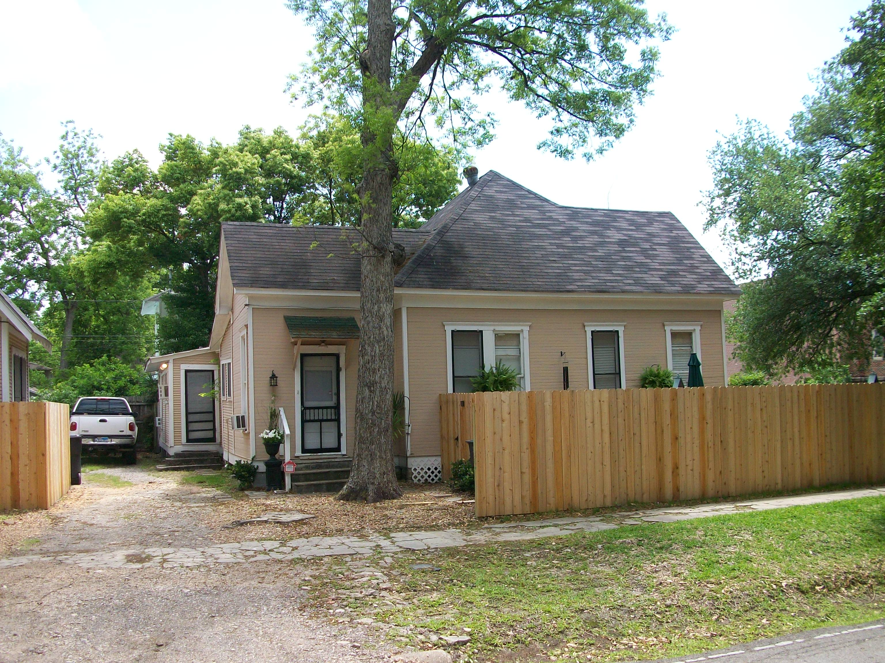 View of the back side of the house